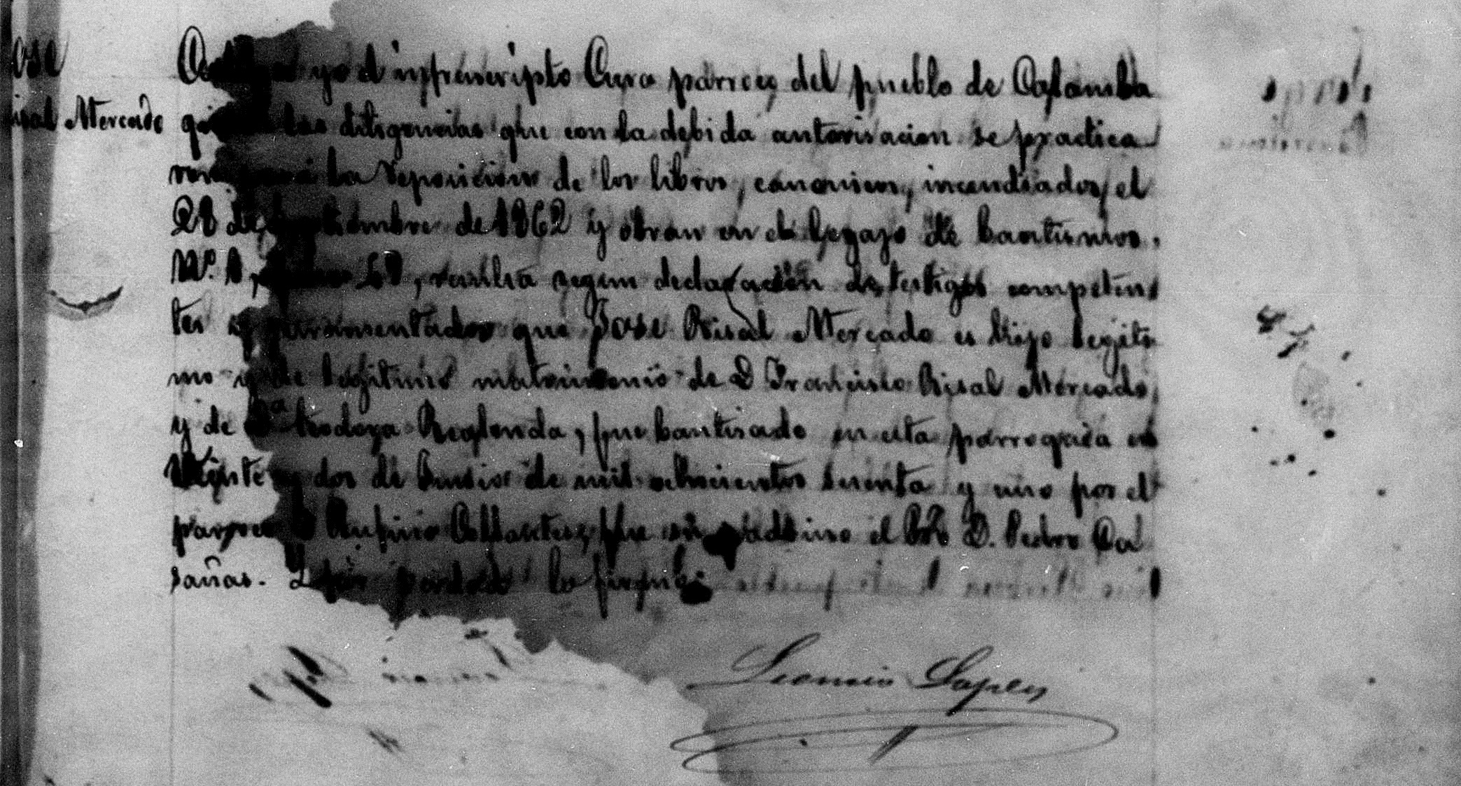 Cropped from Full page of José Rizal's baptismal register